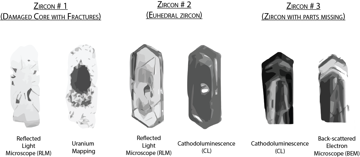 Schematic images of 3 zircons under different imaging instruments.